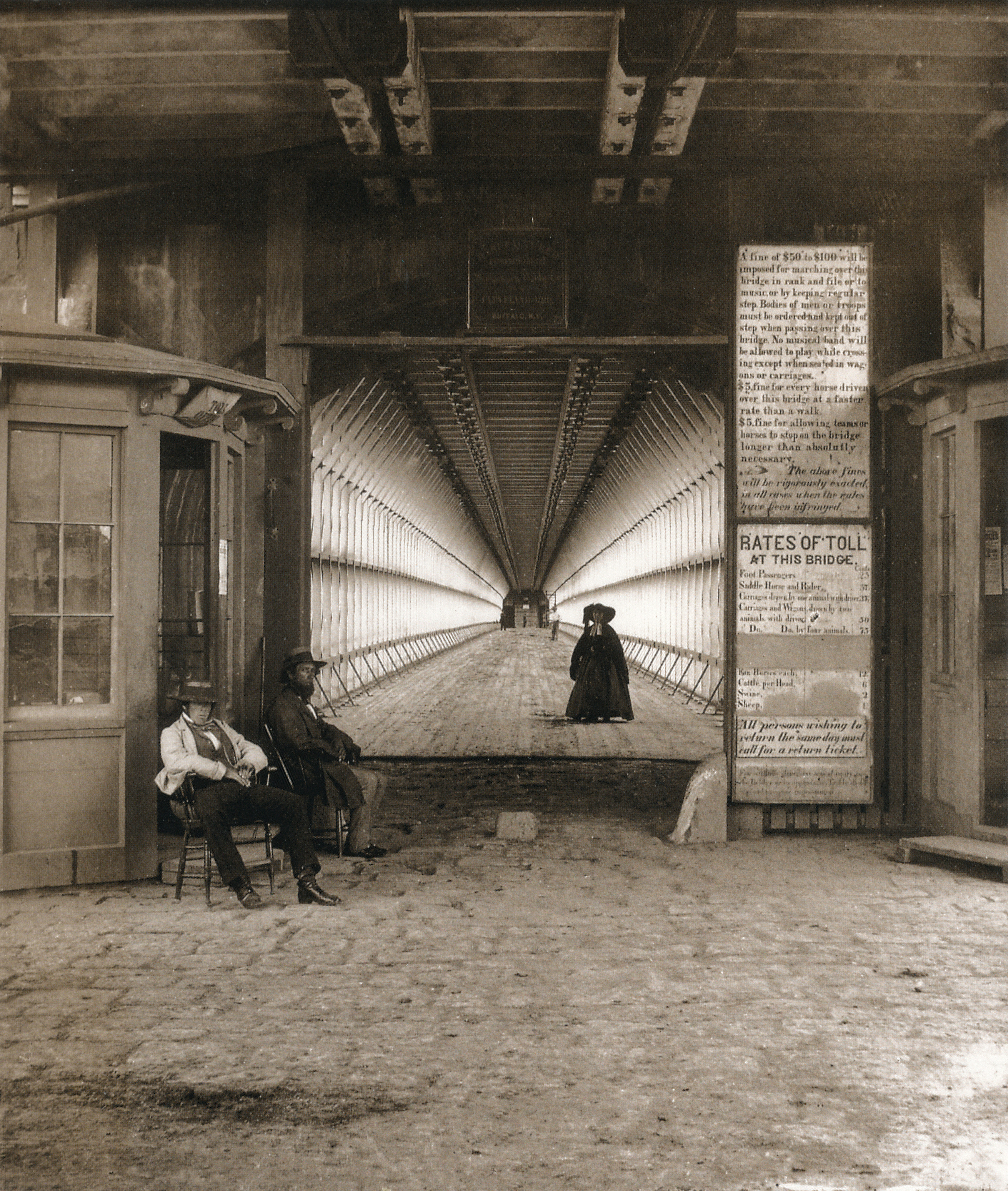 Entrance of the Niagara Falls Suspension bridge